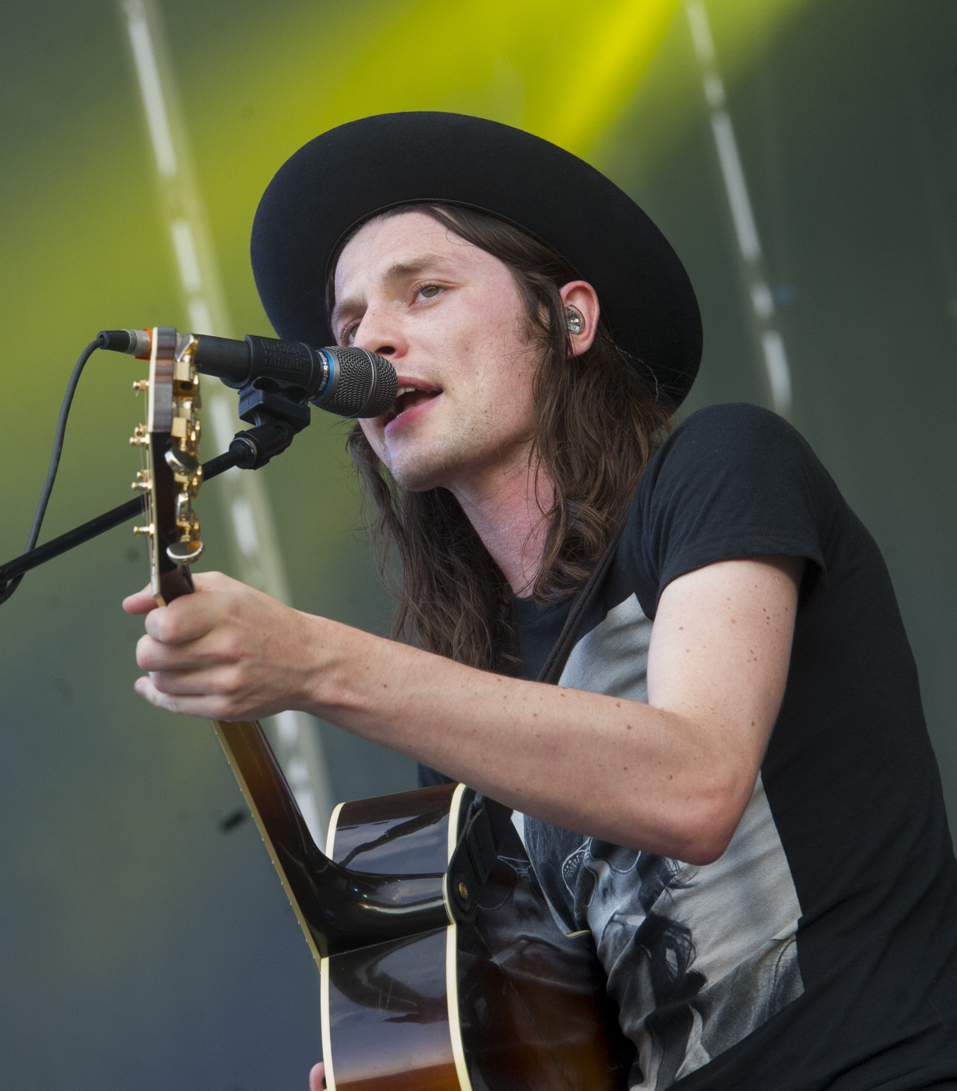 James Bay at Gibraltar Music Festival 2015 (III) on 6 septiembre 2015.